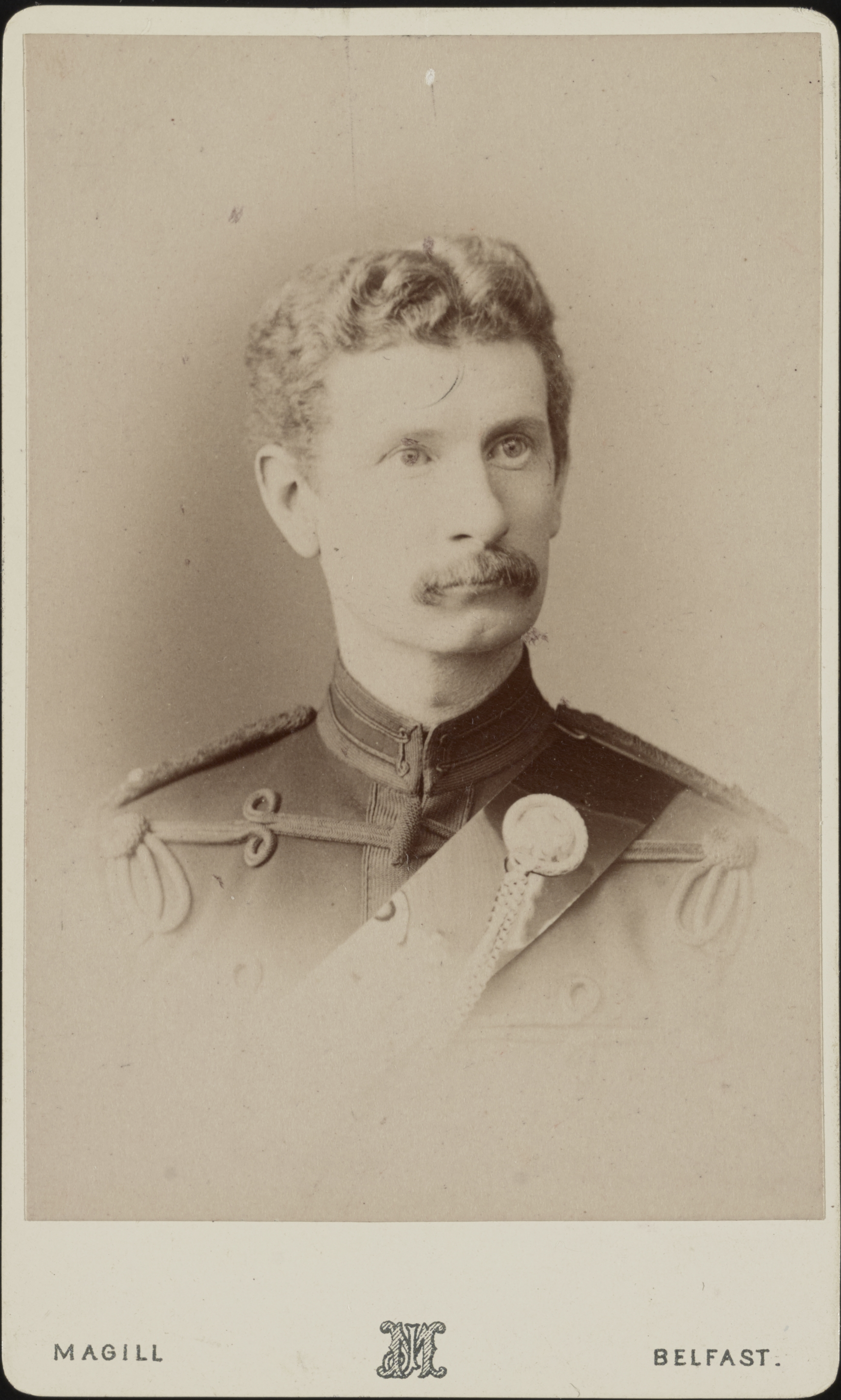 Edward Arthur Butler (4 July 1843 – 16 April 1916)